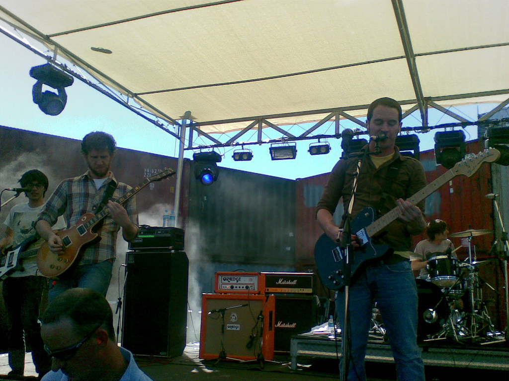 mae at the soundwave festival 2008. Pictured (left to right): Robert Smith, Zach Gehring, Dave Elkins.